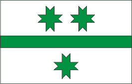 Flag of Rapla Commune, Estonia.